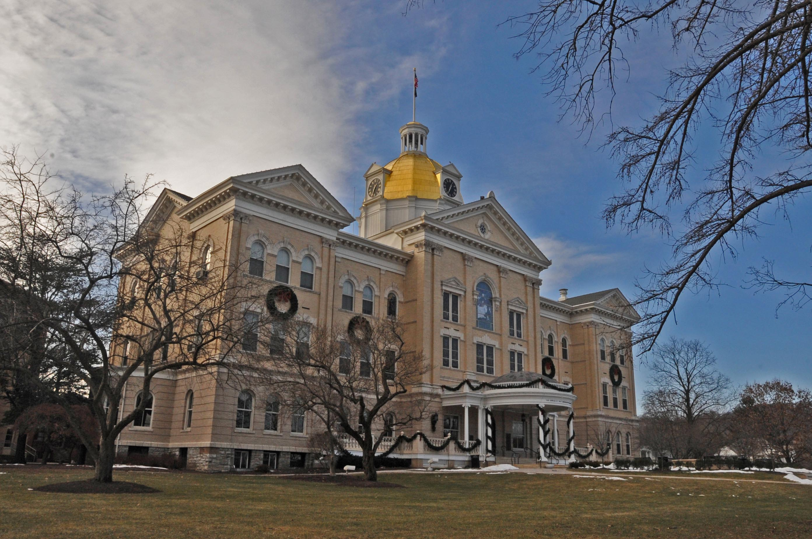 Founded in 1867 as a Methodist liberal arts co-educational preparatory school through a school only for girls and later again to a coeducational bacclaureate and masters degree granting institution. Pictured is the Edward Seay administration building with attached North and South Halls